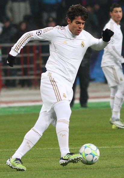 Kaká